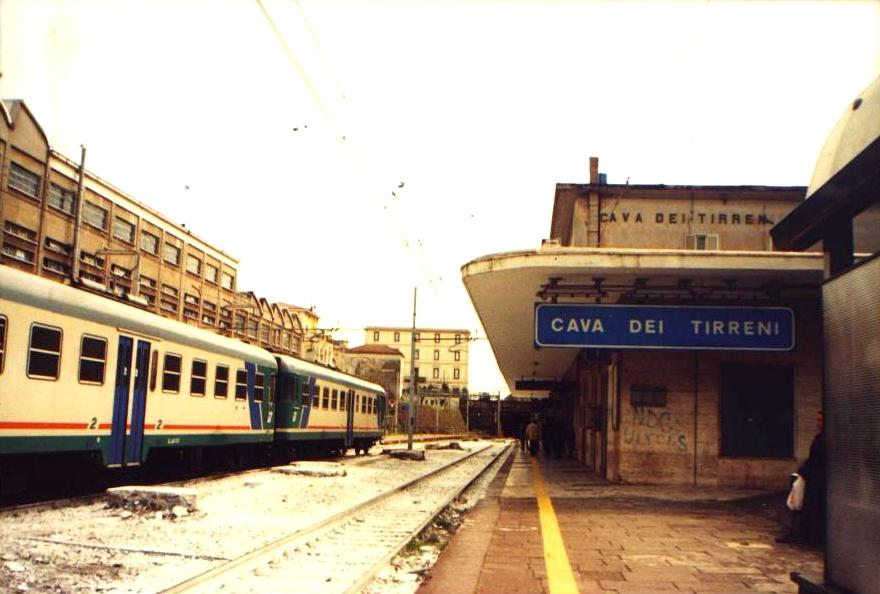 Railway station of Cava de' Tirreni before the renovations (platforms, 2004)